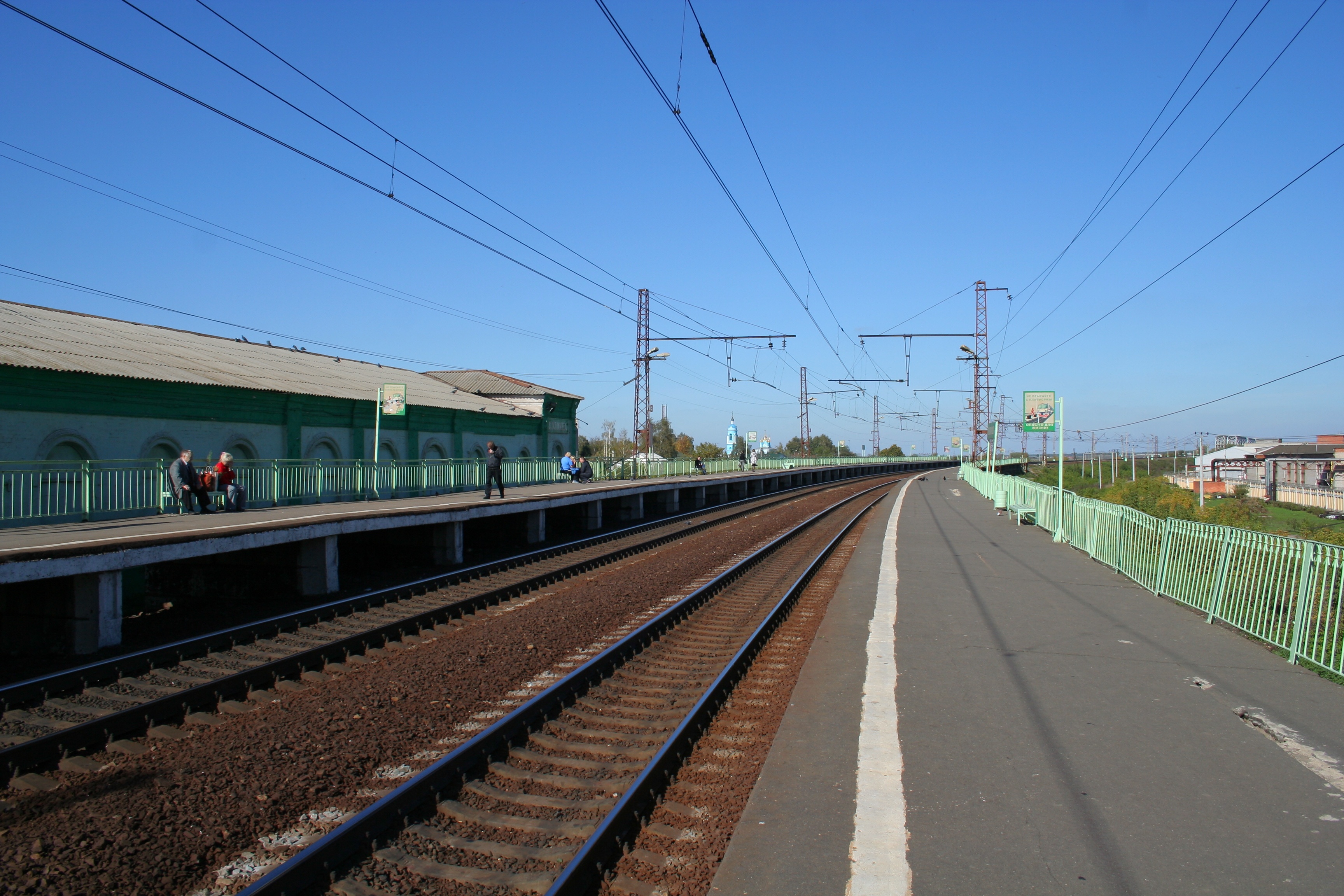 Train stop Kolomna, Moscow Oblast